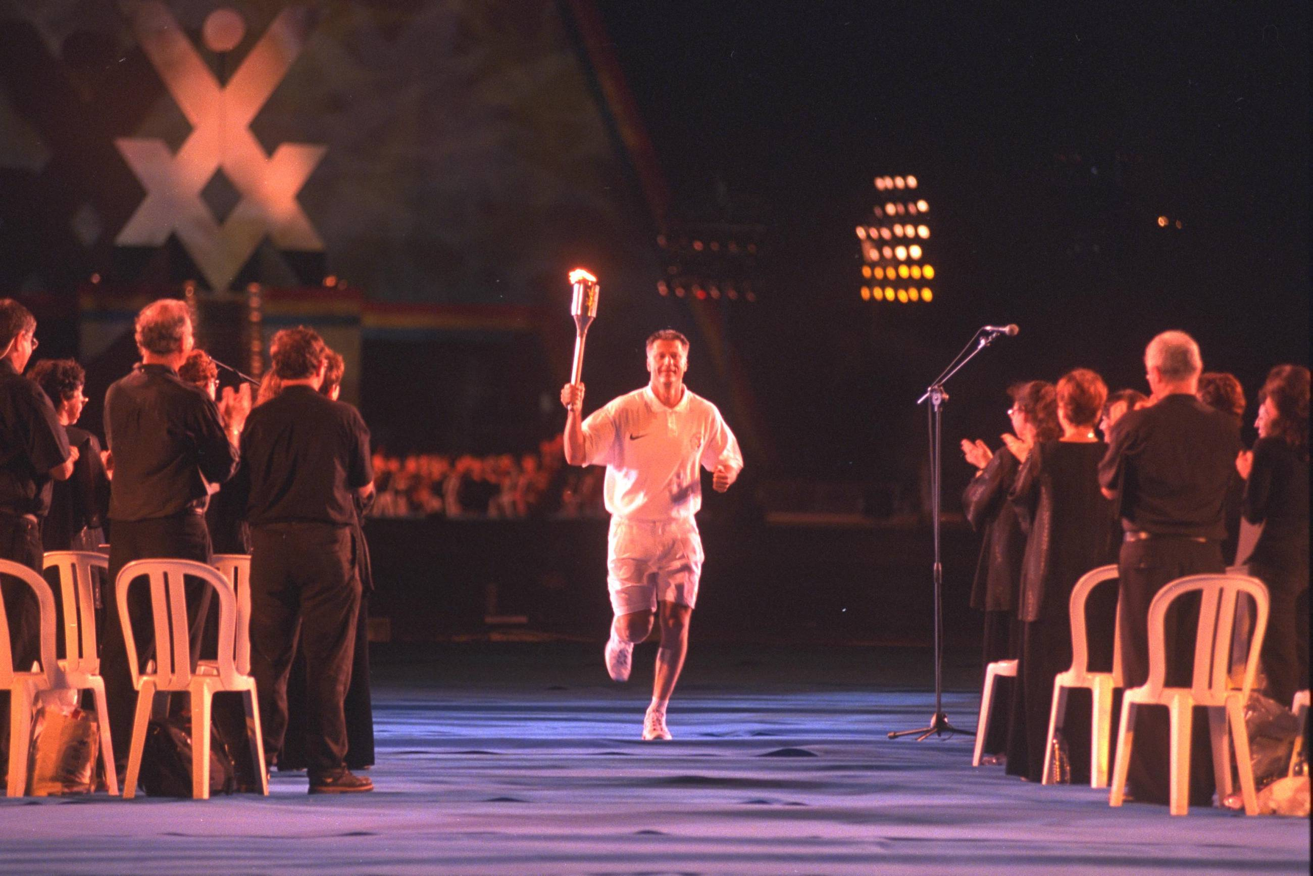 Famous basketball player Mickey Berkowitz carrying the torch at the opening ceremony of the 15th Maccabiah games held at the Ramat Gan Stadium. המכביה ה-15 באיצטדיון רמת גן. שחקן הכדורסל מיקי ברקוביץ נושא את הלפיד בפתיחת המשחקים Photo: EINAT ANKER, 07/14/1997